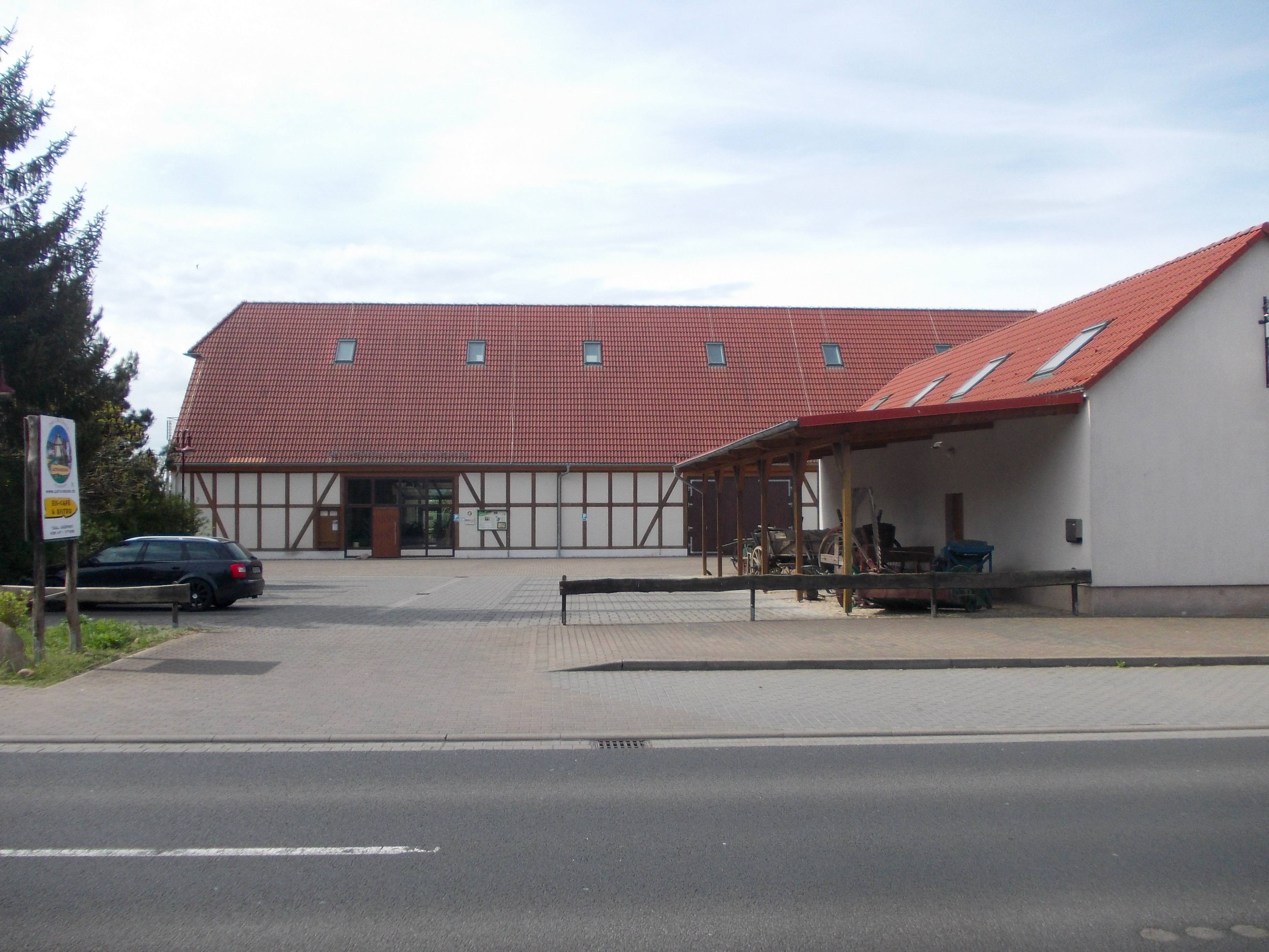 Barn of Schwemsal estate (Muldestausee, Anhalt-Bitterfeld district, Saxony-Anhalt)